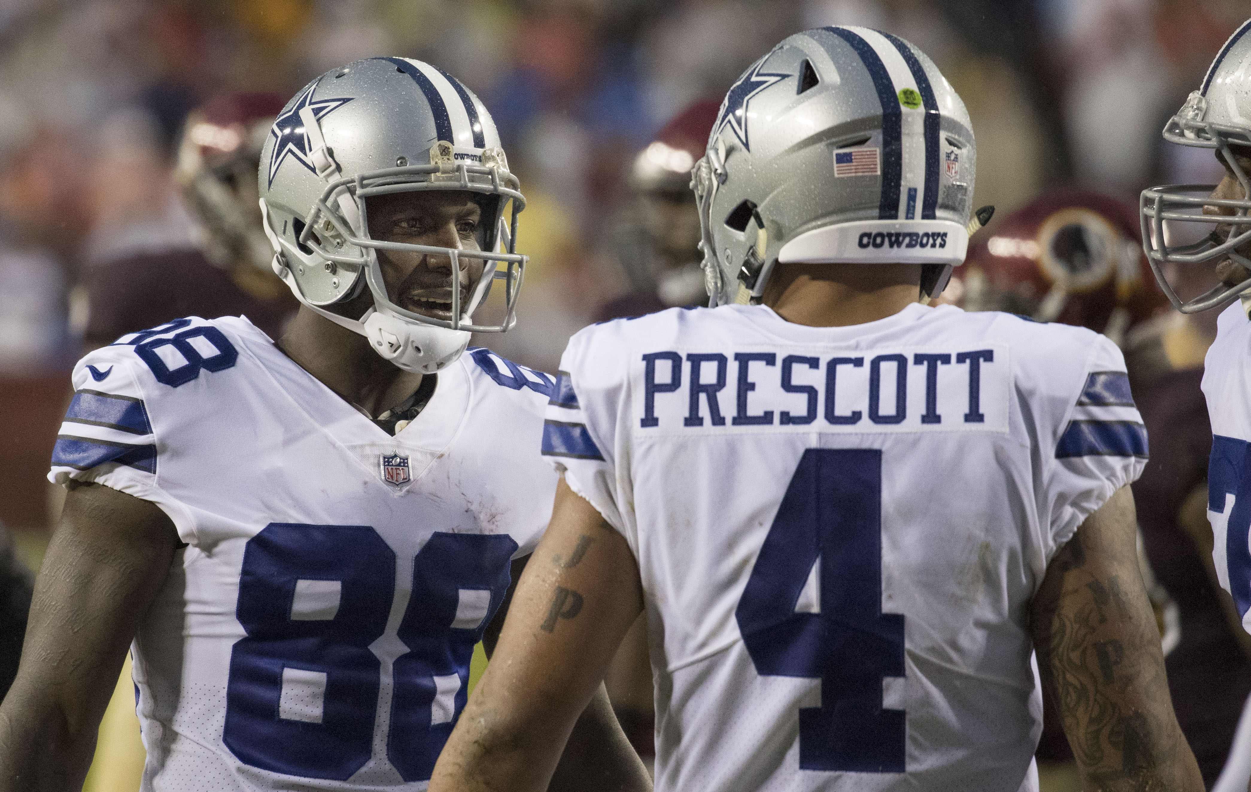 Cowboys at Redskins 10/29/17